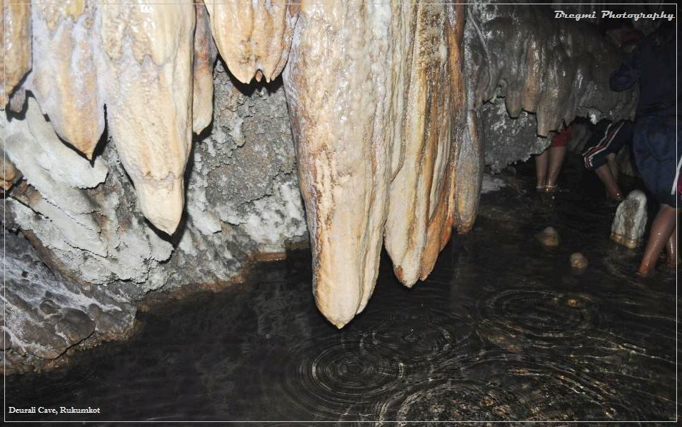 Deurali Cave: A Mystarious cave located in eastern side in the bank of Rukum Gad, Rukumkot.